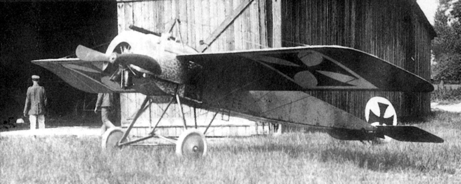 An early summer 1915 photo of Kurt Wintgens' Fokker M.5K/MG "E.5/15" Fokker Eindecker, that was the aircraft used by him on July 1, 1915 in the very first successful aerial engagement which involved a synchronized machine-gun-armed aircraft. Photo came from the Peter M Grosz collection, and had to have been originally taken before the end of July 1915, as the appearance of the fuselage of this individual aircraft after that date changed when Wintgens was assigned to a different unit, that used distinctive markings on its fuselage, that are not shown in this photo.